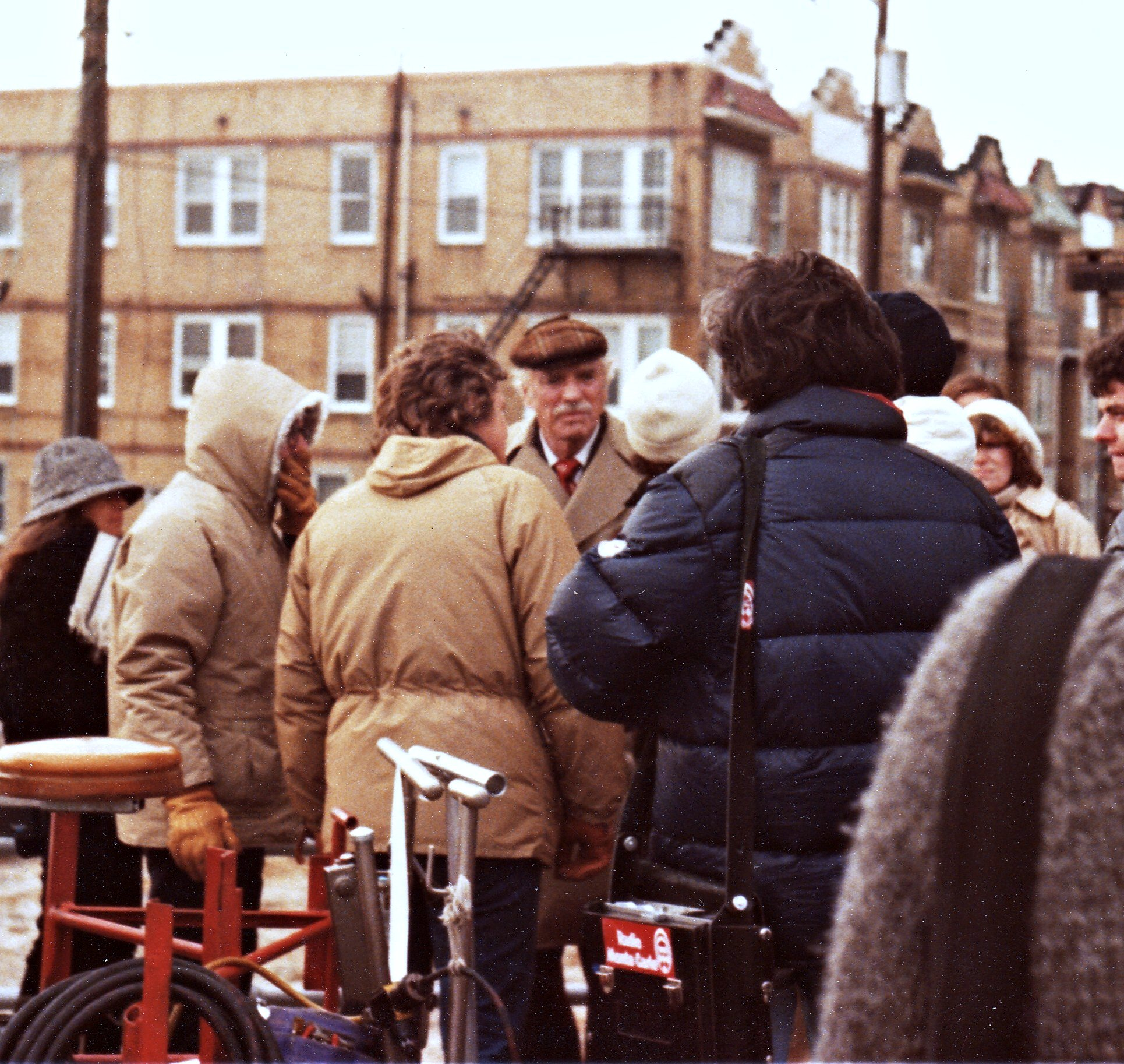 On set of movie Atlantic City. Director Louis Malle on left. 35mm.